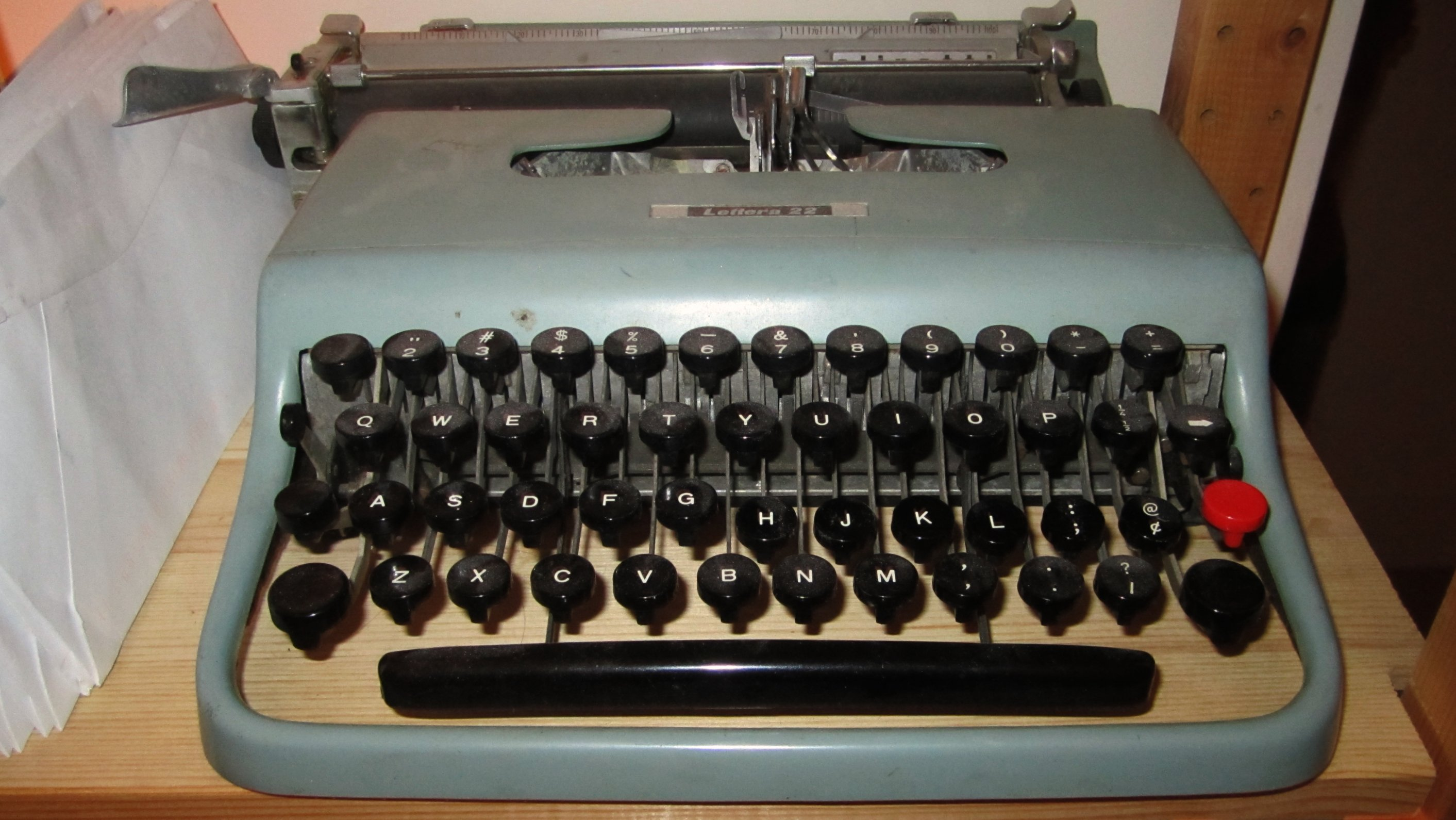 The Olivetti Lettera 22 typewriter